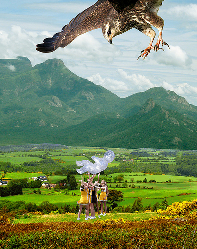 Digital Collage by Mark Jenkins